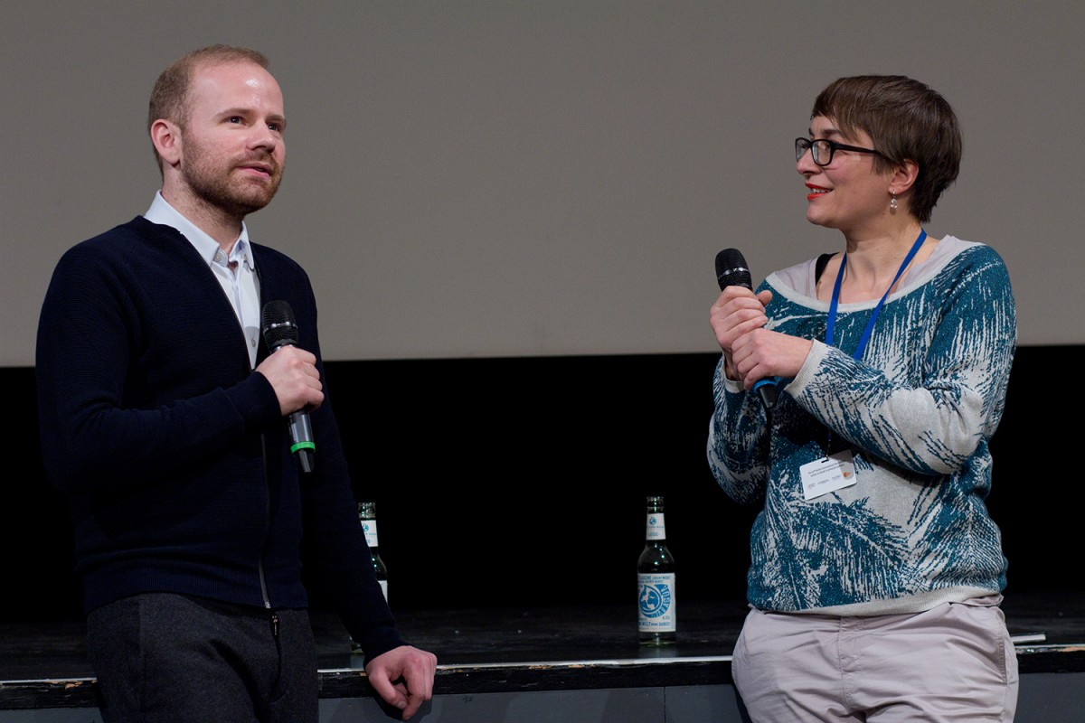 The director Nicolas Cilins and the moderator Nanna Heidenreich during a Q&A, after a screening of Gineva at Berlinale's Forum Expanded section in 2015.